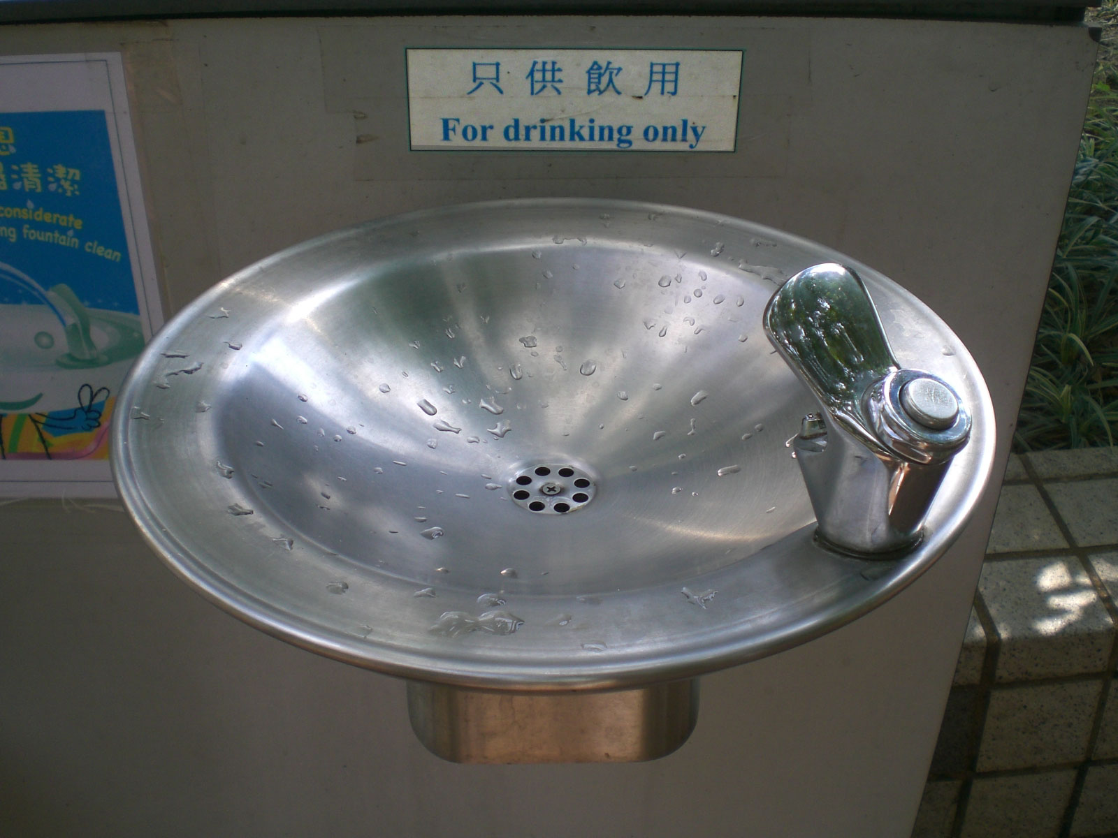 灣仔公園